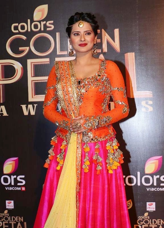 Kritika at Colors Golden Petal Awards 2016